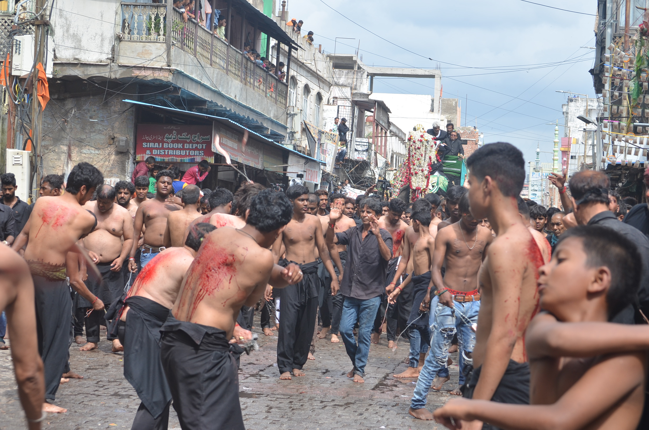 The Shia devout cut and flagellate themselves with sharp objects in passionate commeration of the suffering endured by Hazrat Imam Hussain,who was cruelly killed along with his followers at Karbala,Iraq in Seventh century CE. This photo has been taken in the country: India